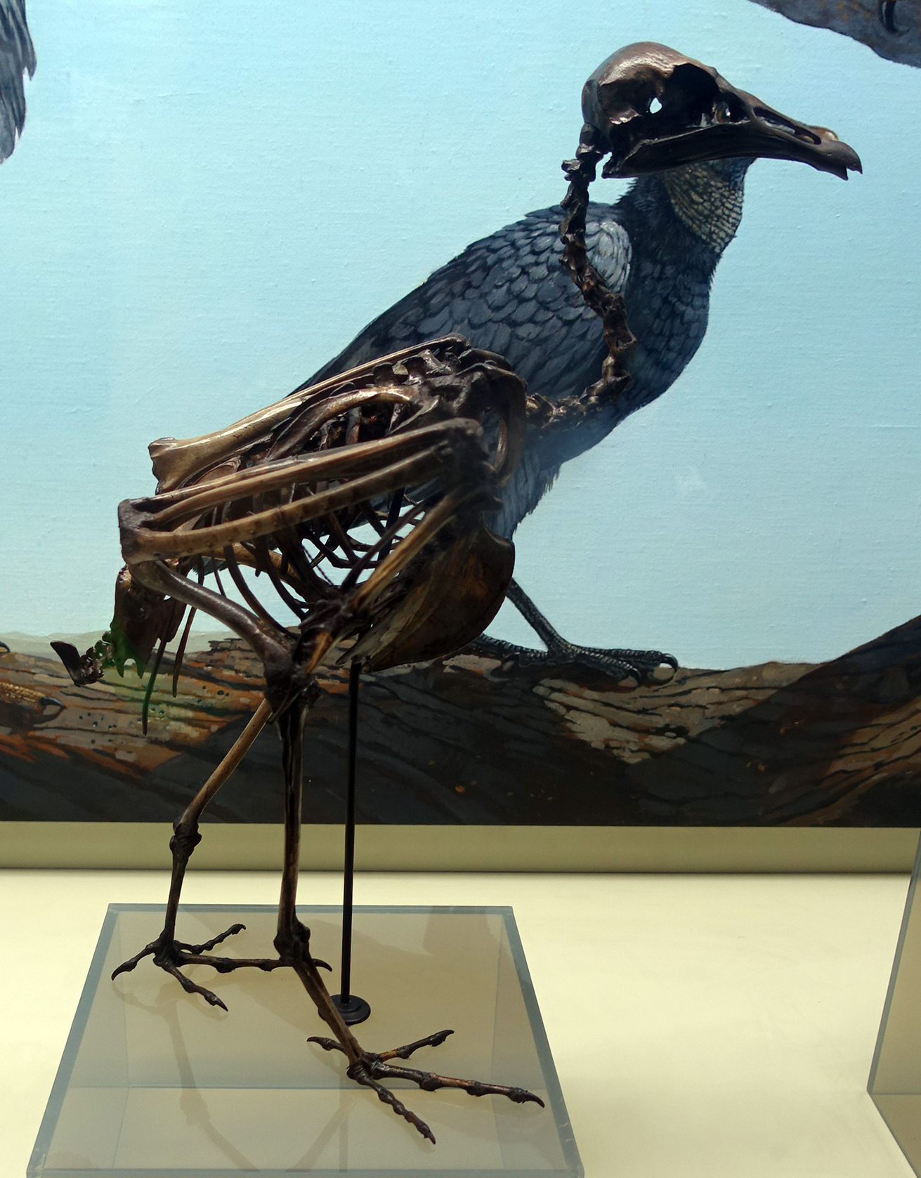 La Brea Tar Pits Museum - Prehistoric Birds